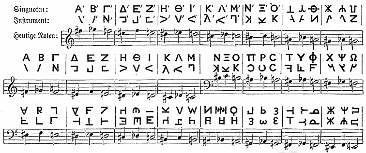 actualisation of a public domain picture from 19th century encyclopedia, concerning music theory